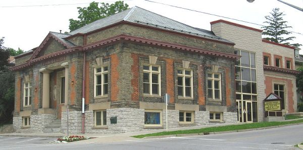 Paris Branch of the County of Brant Public Library at 12 William St, the library's central branch. This Carnegie library was built in 1902.